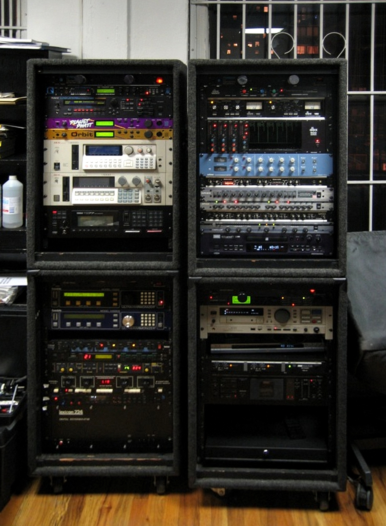 Effects rack at recording studio, NYC